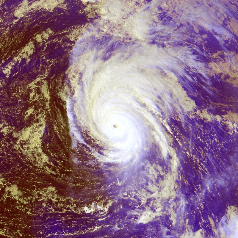 Typhoon Shanshan at peak intensity. Maximum sustained winds were estimated at 95 knots.